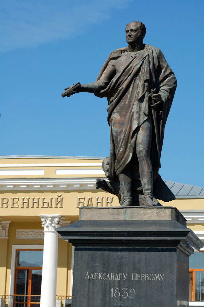 Monument ot Alexander I of Russia in Taganrog, southern Russia. Sculptor: Ivan Martos.